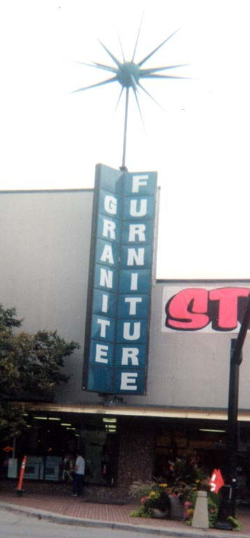 granite furniture sign by JonMoore